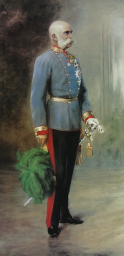 Emperor Franz Joseph of Austria